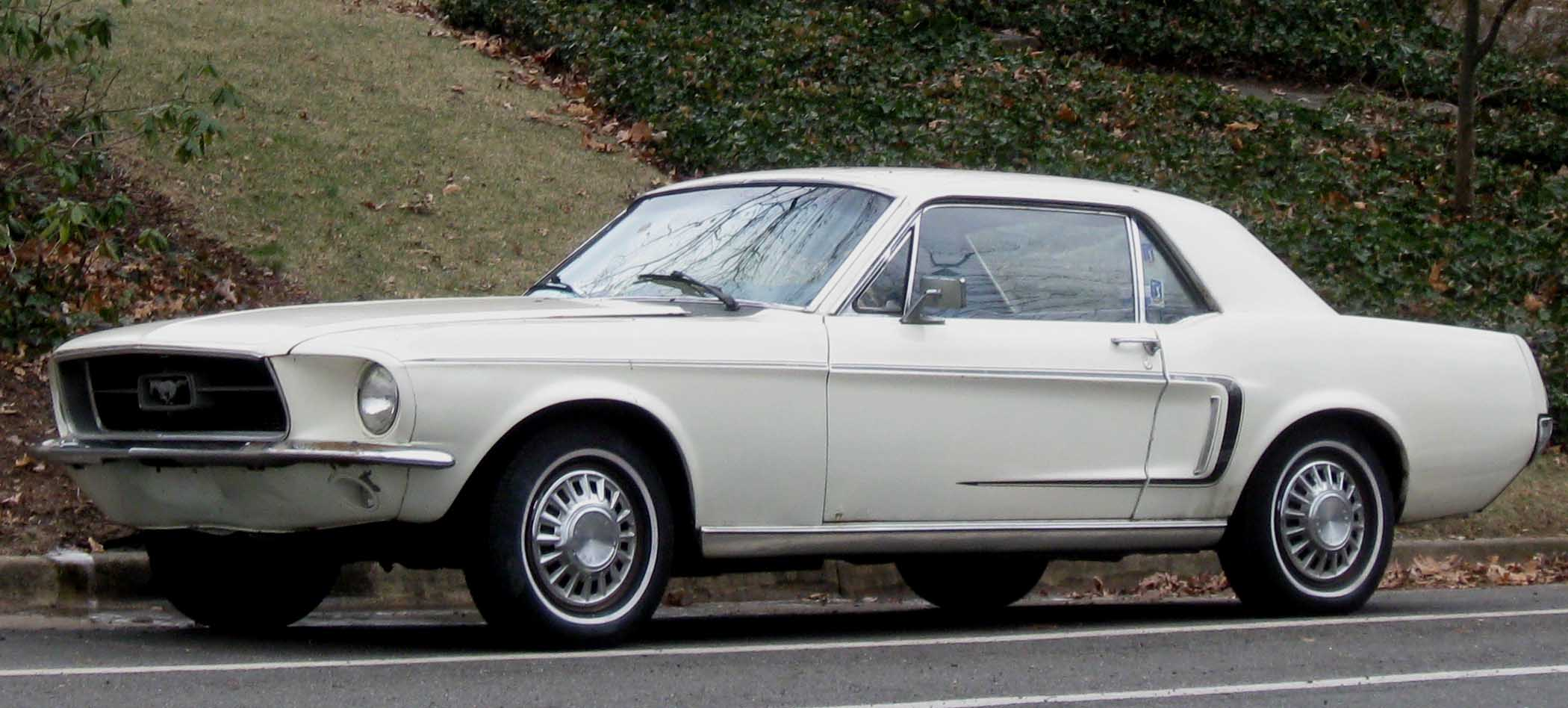 Ford Mustang photographed in Alexandria, Virginia, USA.